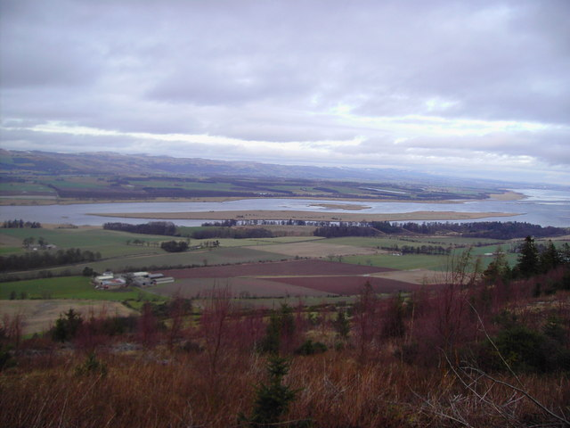 Mugdrum Mugdrum Island from Carpow Hill.